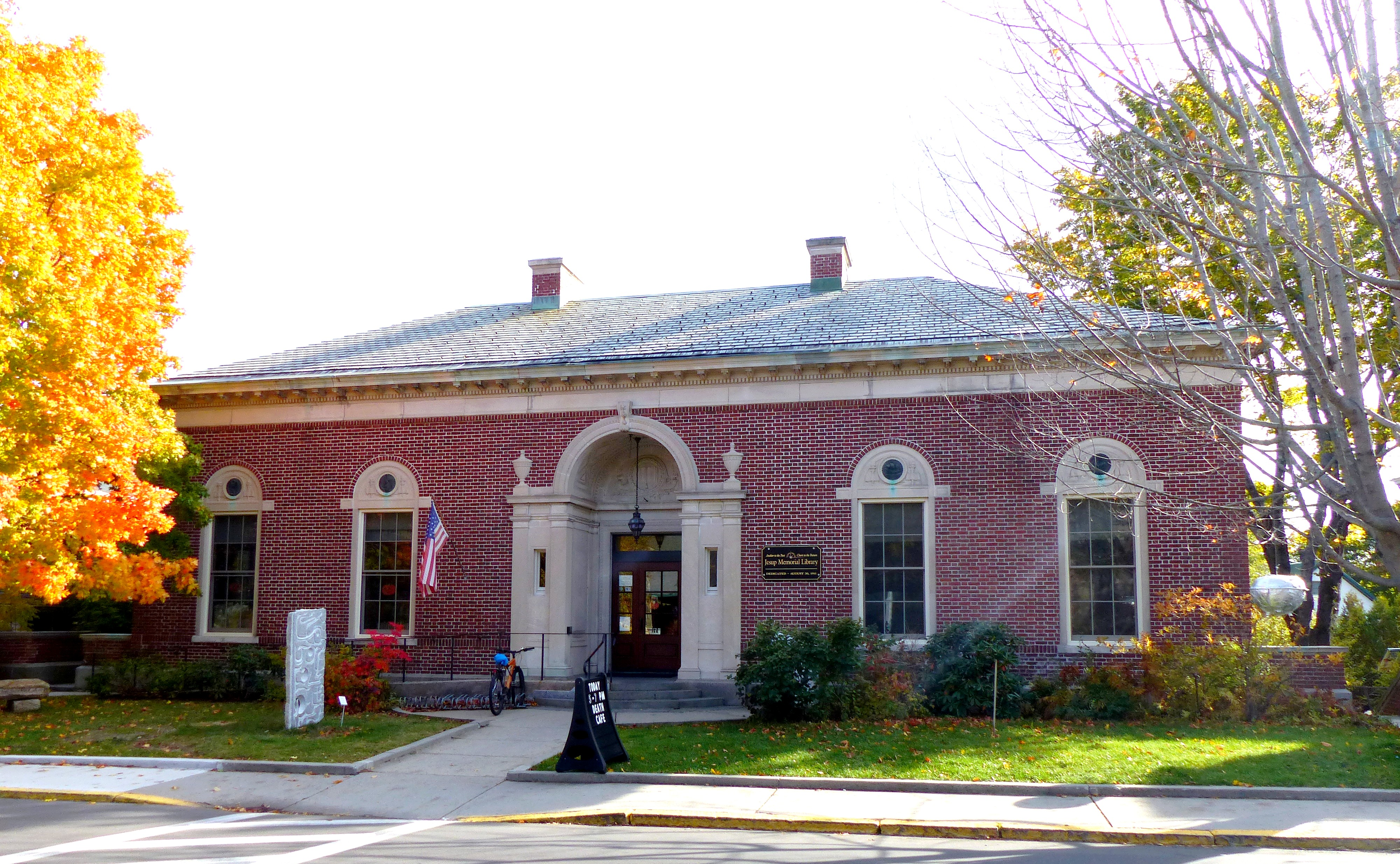 Bar Harbor – Maine – USA - Jesup Memorial Library